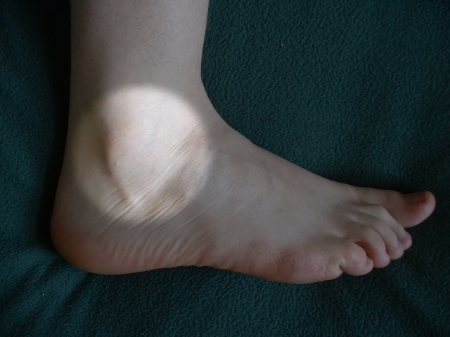 A human ankle highlighted on a photo of a foot. The image was created by modifying the original public-domain foot image found here